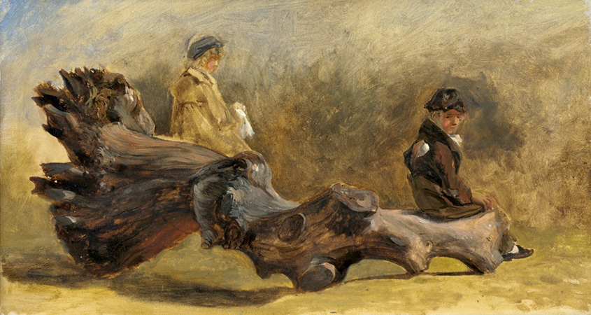 Two children sitting on a tree trunk